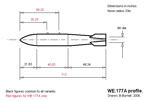 Png version of Image:WE.177A-profile.jpg created by me Ian Dunster 19:49, 26 May 2006 (UTC) using the original drawn and uploaded by Brian.Burnell. The photograph should be attributed to Brian Burnell the copyright holder in this format. Summary Drawing Artist: Self